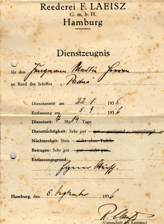 Certificate for service of Sailor Martin Heeren, from the german 4-masted barque Padua, Captain Robert Clauss, document from december 1936